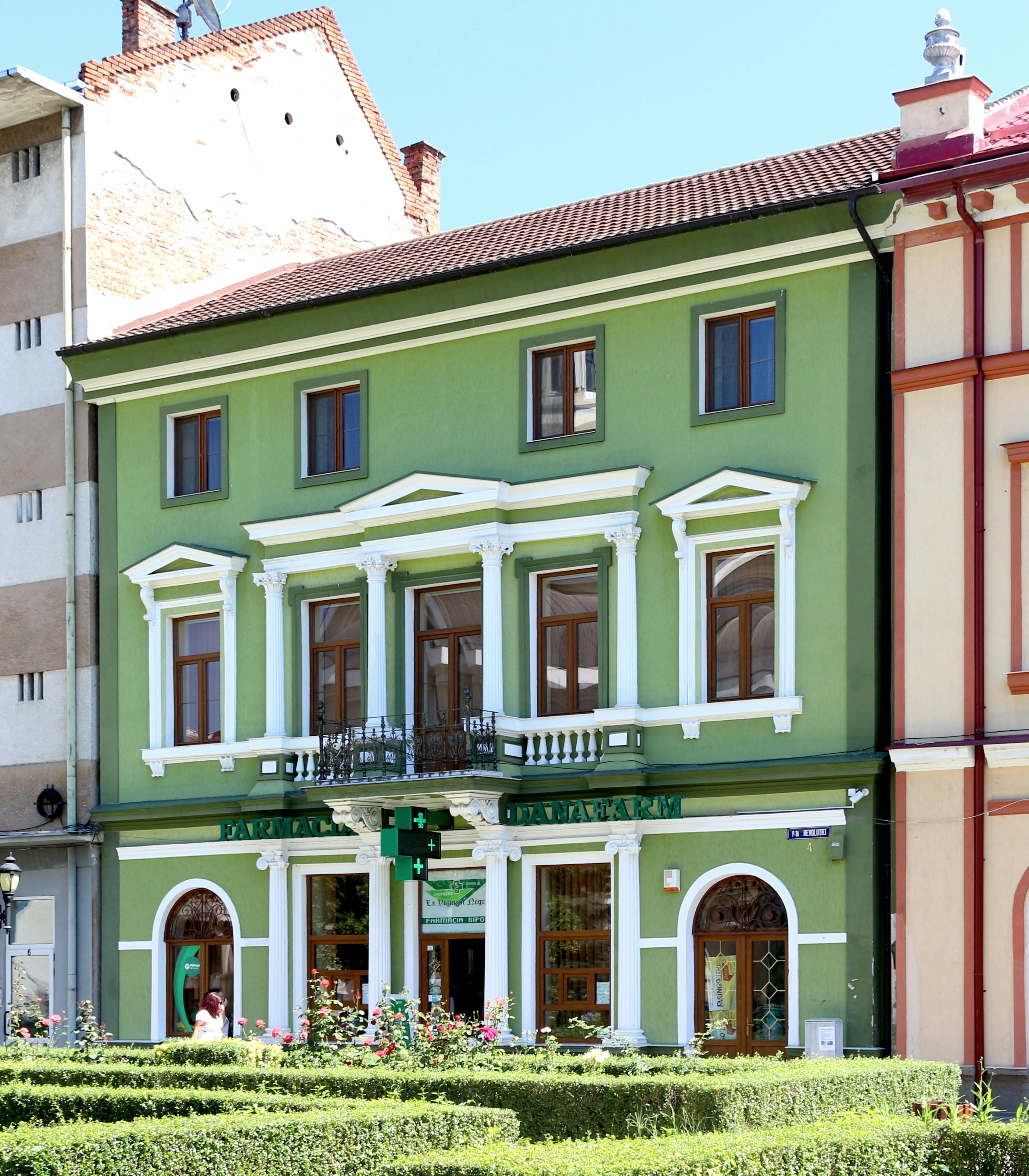 Former "Tineretului" Cinema, Revoluției Sq., no. 1, Caransebeș, Romania, built 1927.